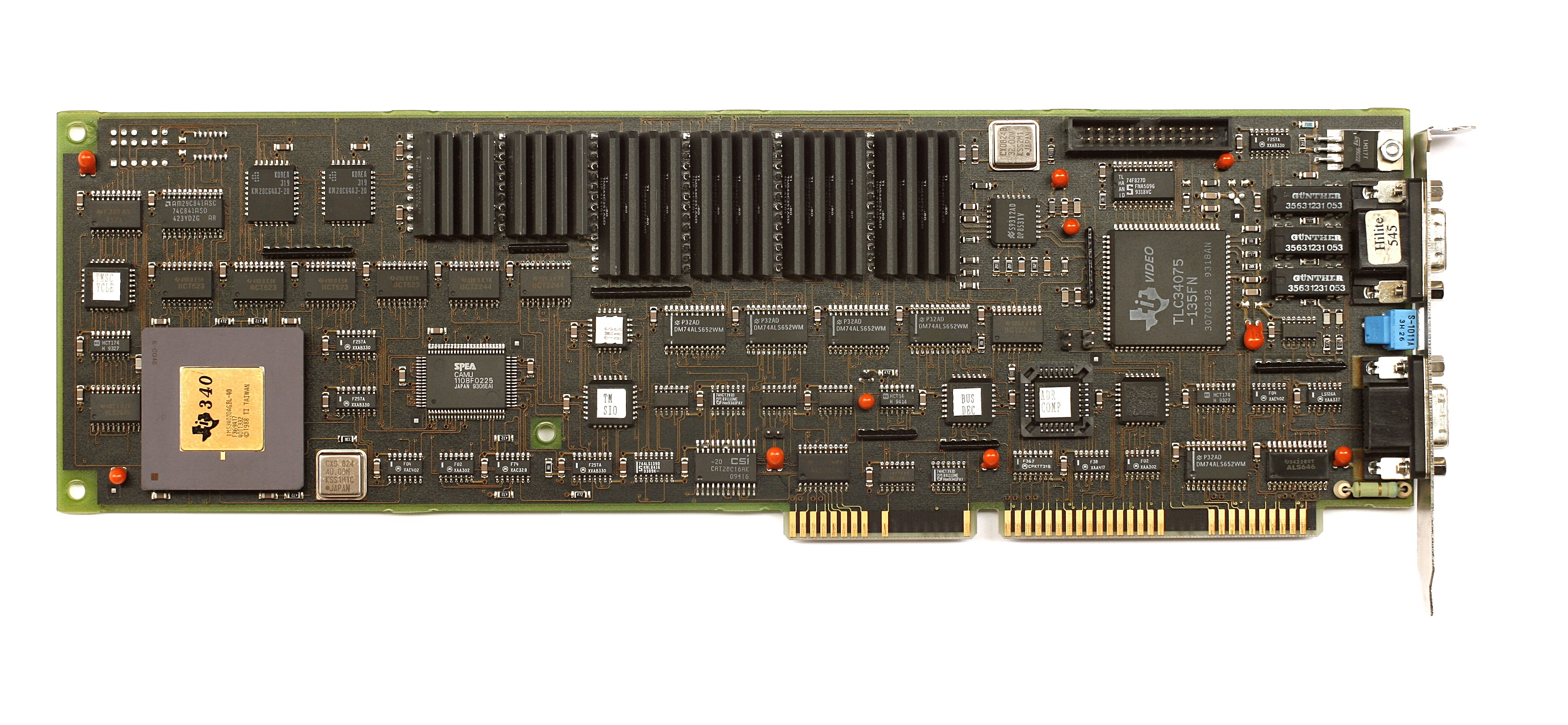 Spea TIGA Video Card (as Add On Card).